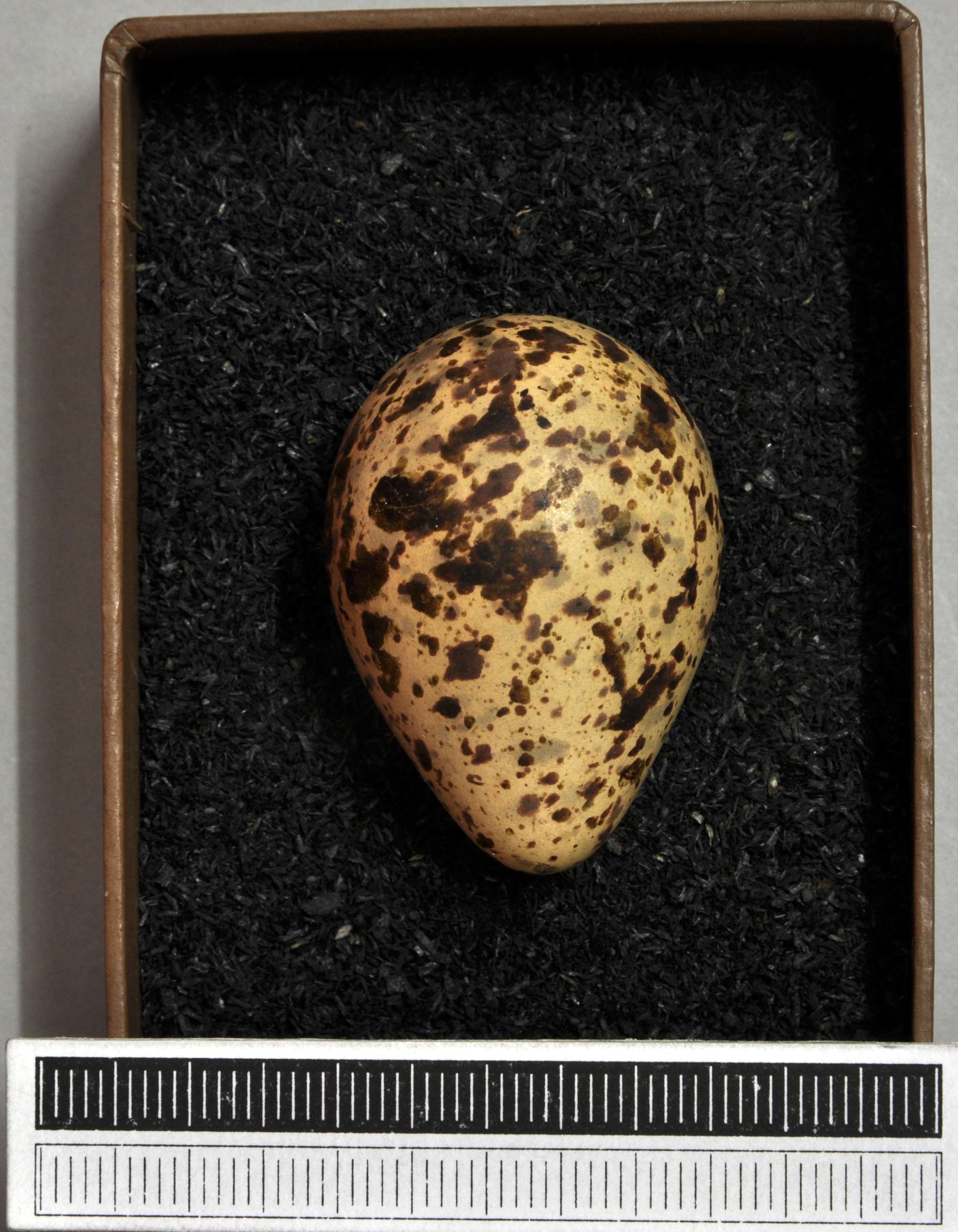 Terek sandpiper Xenus cinereus , egg, Coll. Museum Wiesbaden